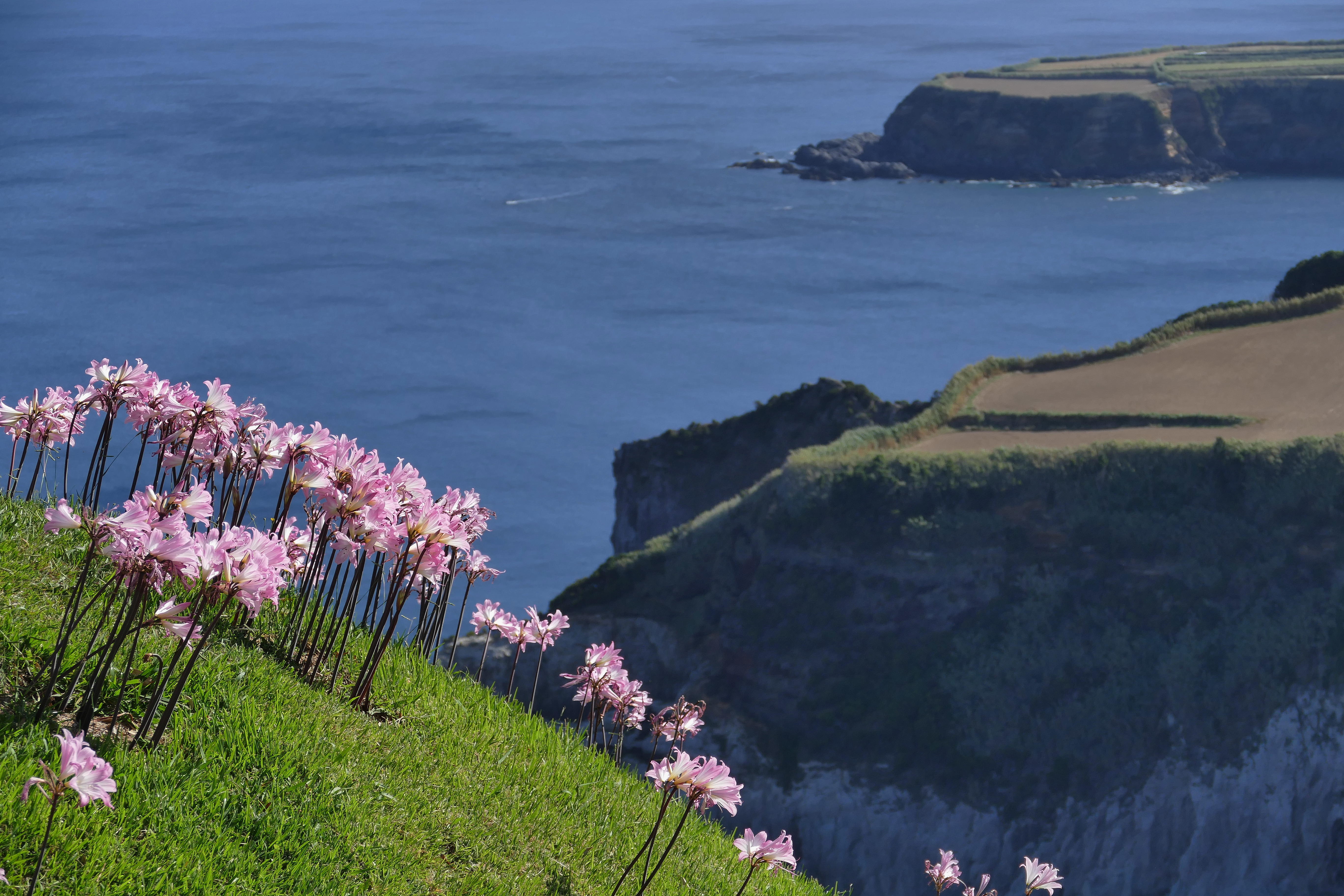 Viewpoint of Santa Iria on the island of Sao Miguel (Azores) with pink blooming Amaryllis belladonna